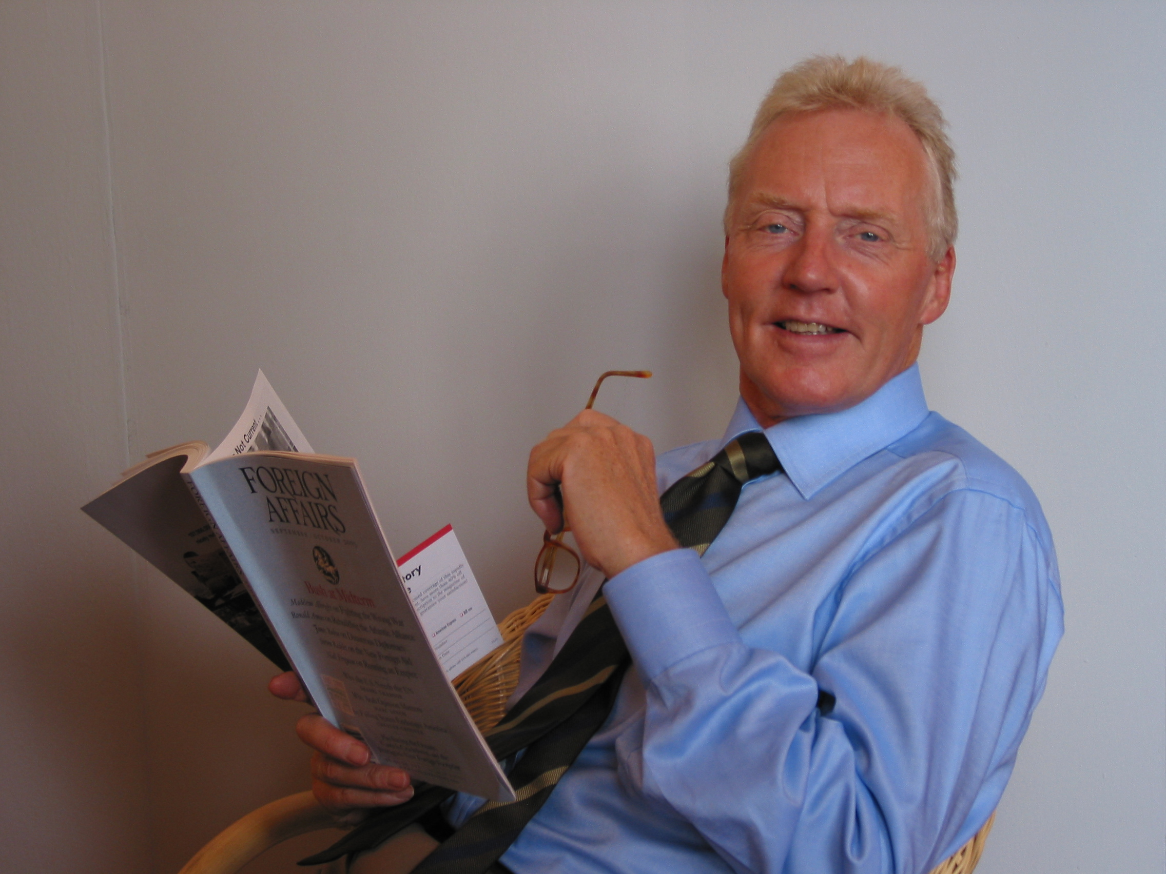 Brian Barron reading.